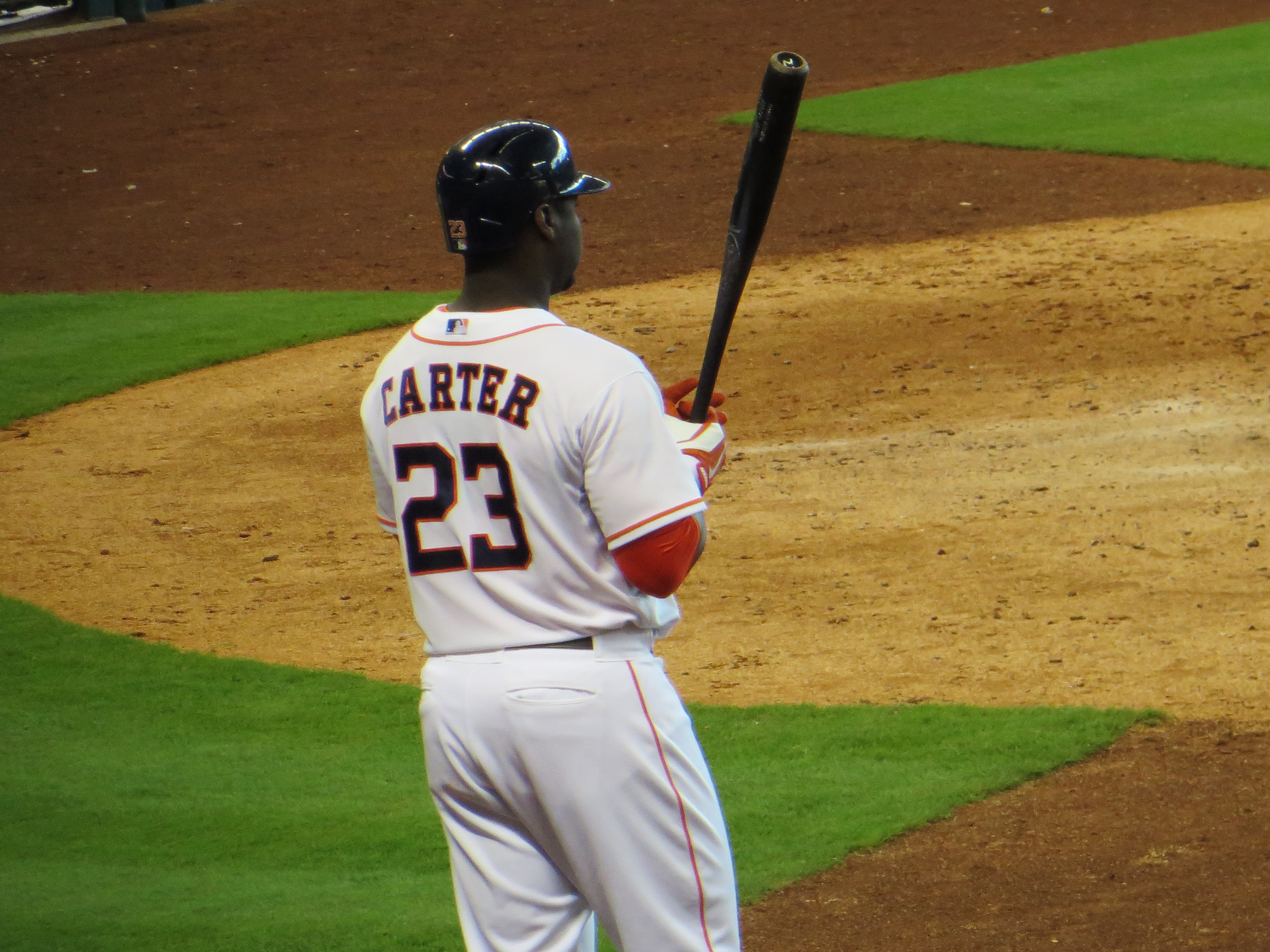 Chris Carter of the Houston Astros, June 29, 2013